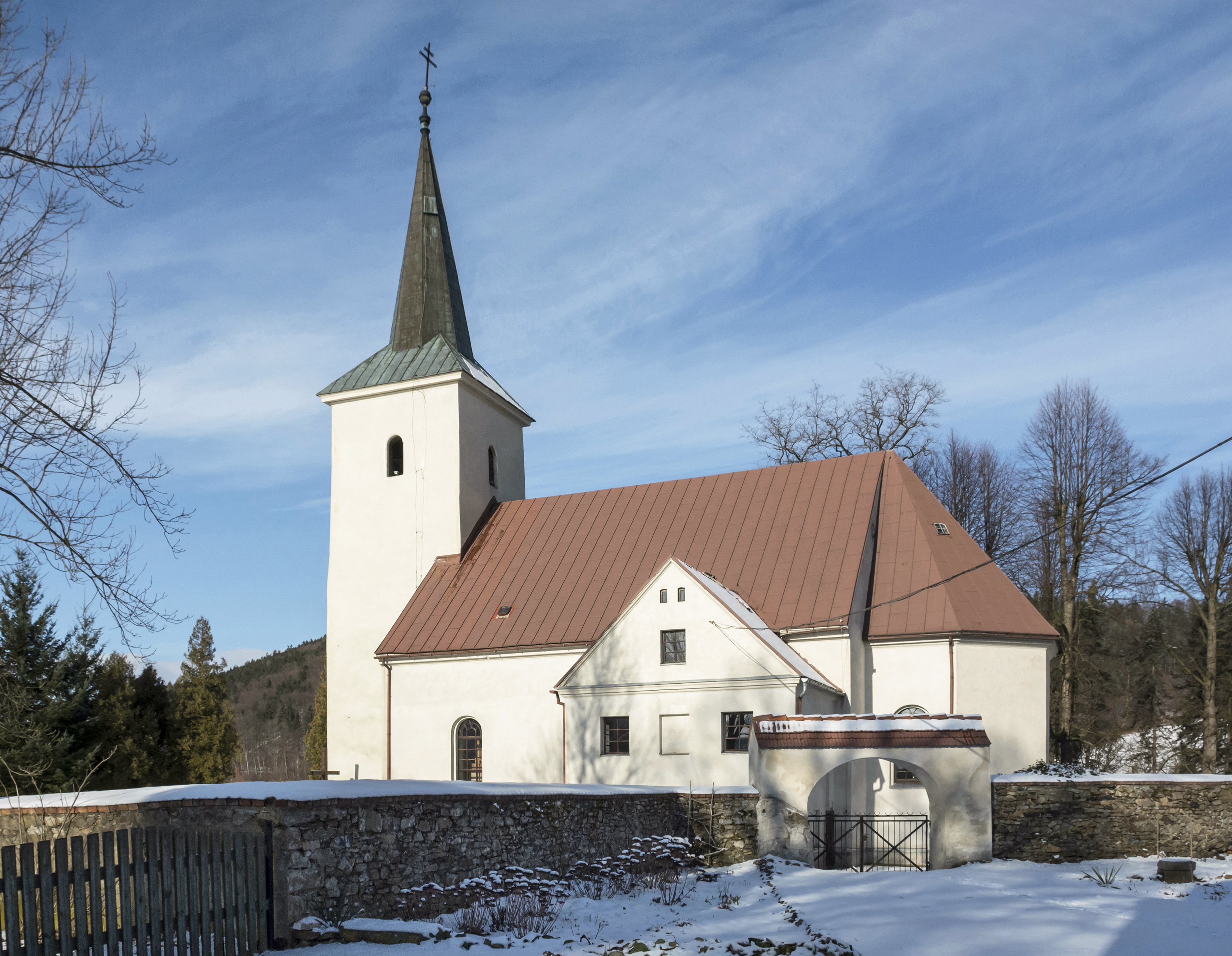 Church of St. Nicholas in Radochów Ta fotografia przedstawia zabytek wpisany do rejestru zabytków pod numerem ID 592860